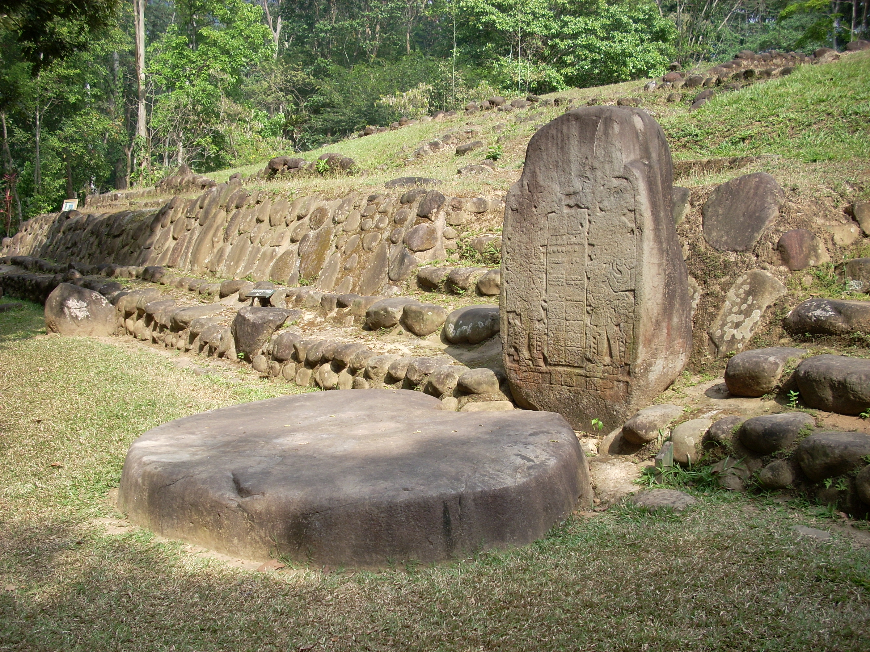 Stela 5 at Takalik Abaj, El Asintal, Retalhuleu, Guatemala, showing an early example of a Long Count date. Altar 8 lies before it.